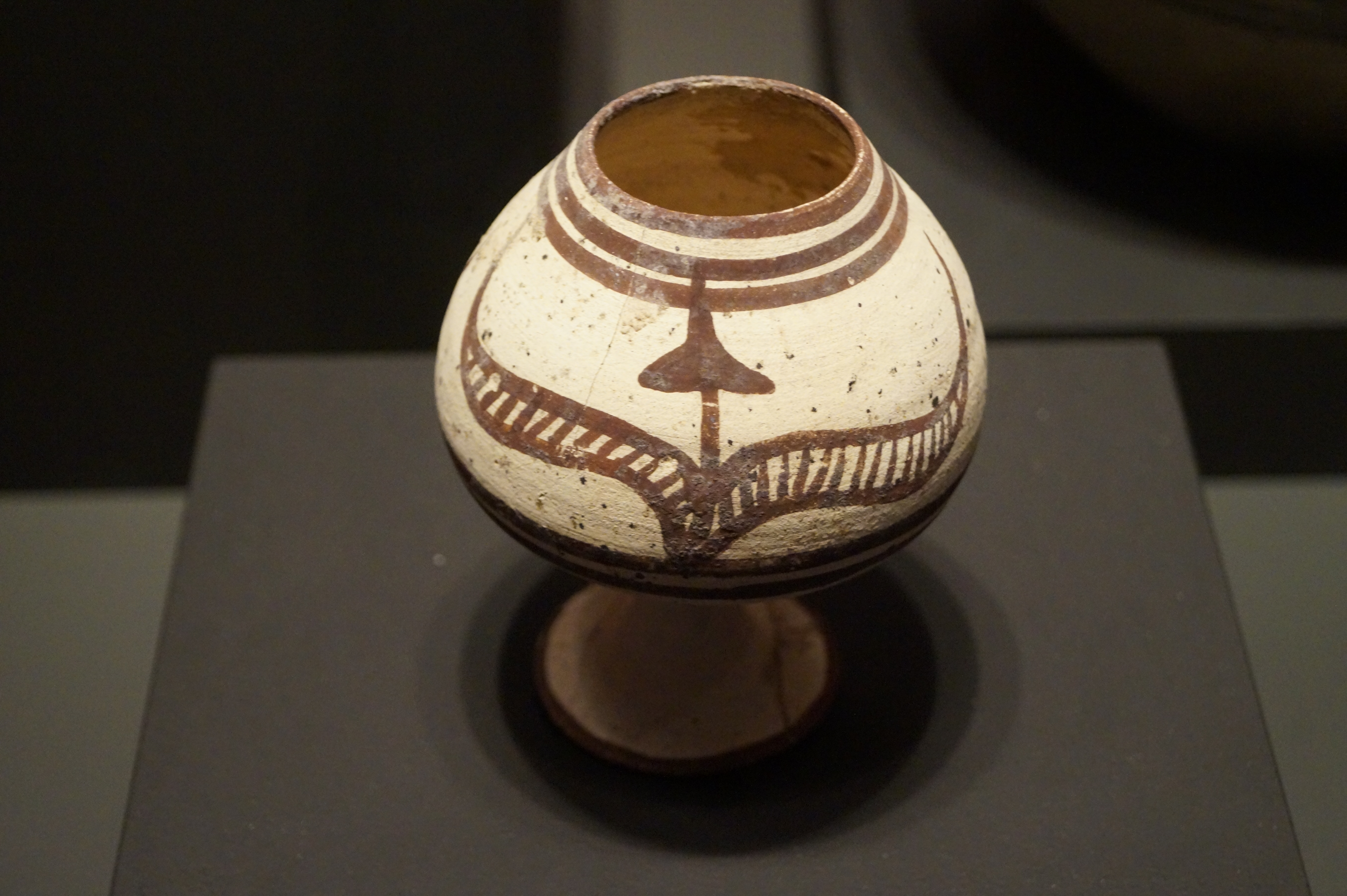 Ceramic vessel from Iran, Shahr-e Sukhteh Necropolis, 2800-2300 BC